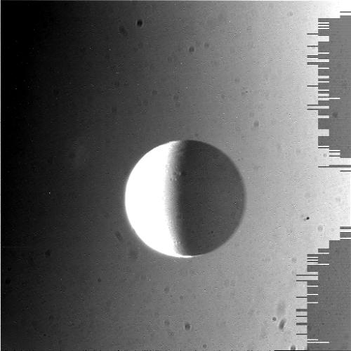 N00153918.jpg was taken on May 17, 2010 and received on Earth May 18, 2010. The camera was pointing toward DIONE at approximately 548,210 kilometers away, and the image was taken using the CL1 and CL2 filters. This image has not been validated or calibrated. A validated/calibrated image will be archived with the NASA Planetary Data System in 2011.